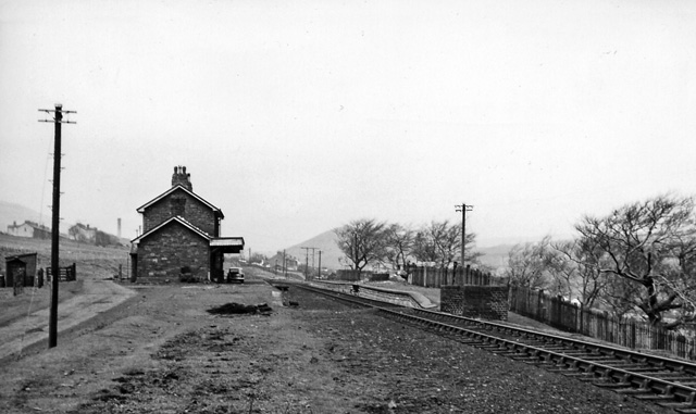 Blaenavon (High Level) Station (remains). View NW, towards Brynmawr; ex-LNW line Brynmawr to Abersychan & Talywain, thence GWR to Pontypool and Newport. Passenger service ceased 3/5/41, goods 6/54 (except coal from Big Pit southward until 1980 - hence the shining rails). The station seemed to be still well-preserved in this 1962 photograph, however. The Pontypool & Blaenavon (Heritage) Railway is being extended down from Furnace Siding (to the north) in 2010.